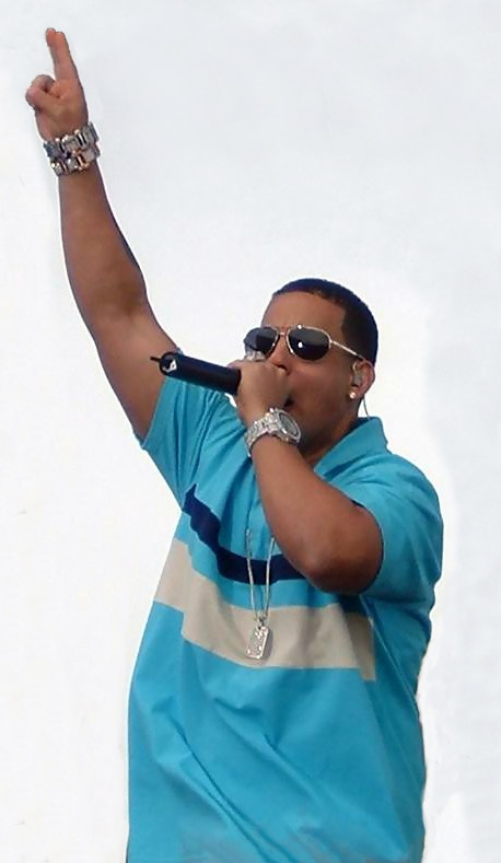 Daddy Yankee performing in Panama City, Florida, United States during Spring Break 2006.